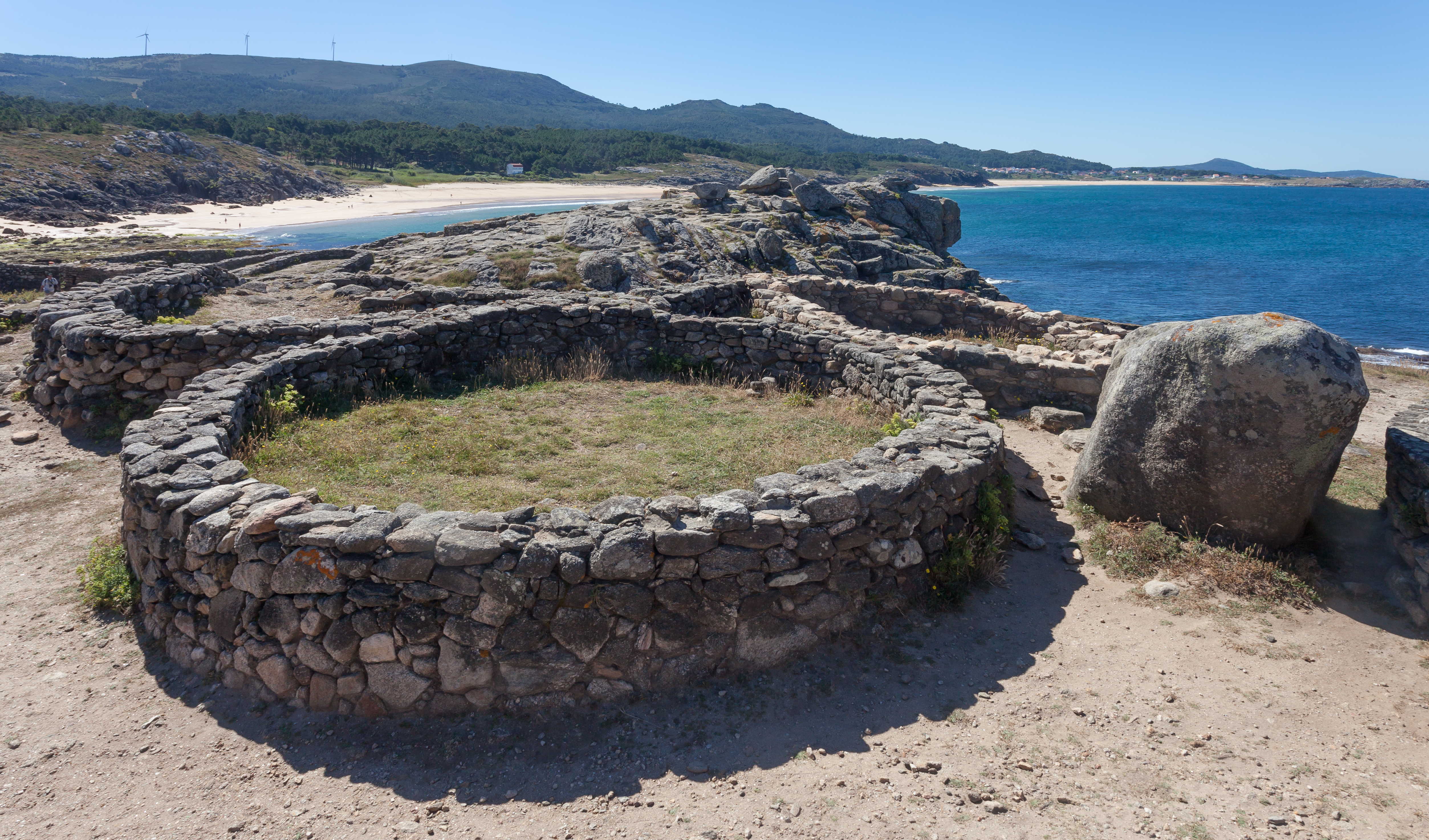 Hill fort of Baroña and beach of Arealonga, Porto do Son, Galicia, Spain.